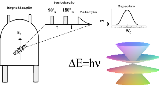 Esquema de um espectrômetro, onde a amostra é mergulhada no campo magnético B , obtendo níveis de energia como mostrado e assim perturbada com uma seqüência de pulso desejada. Após a perturbação obtém-se o espectro com a freqüência de RMN definida.